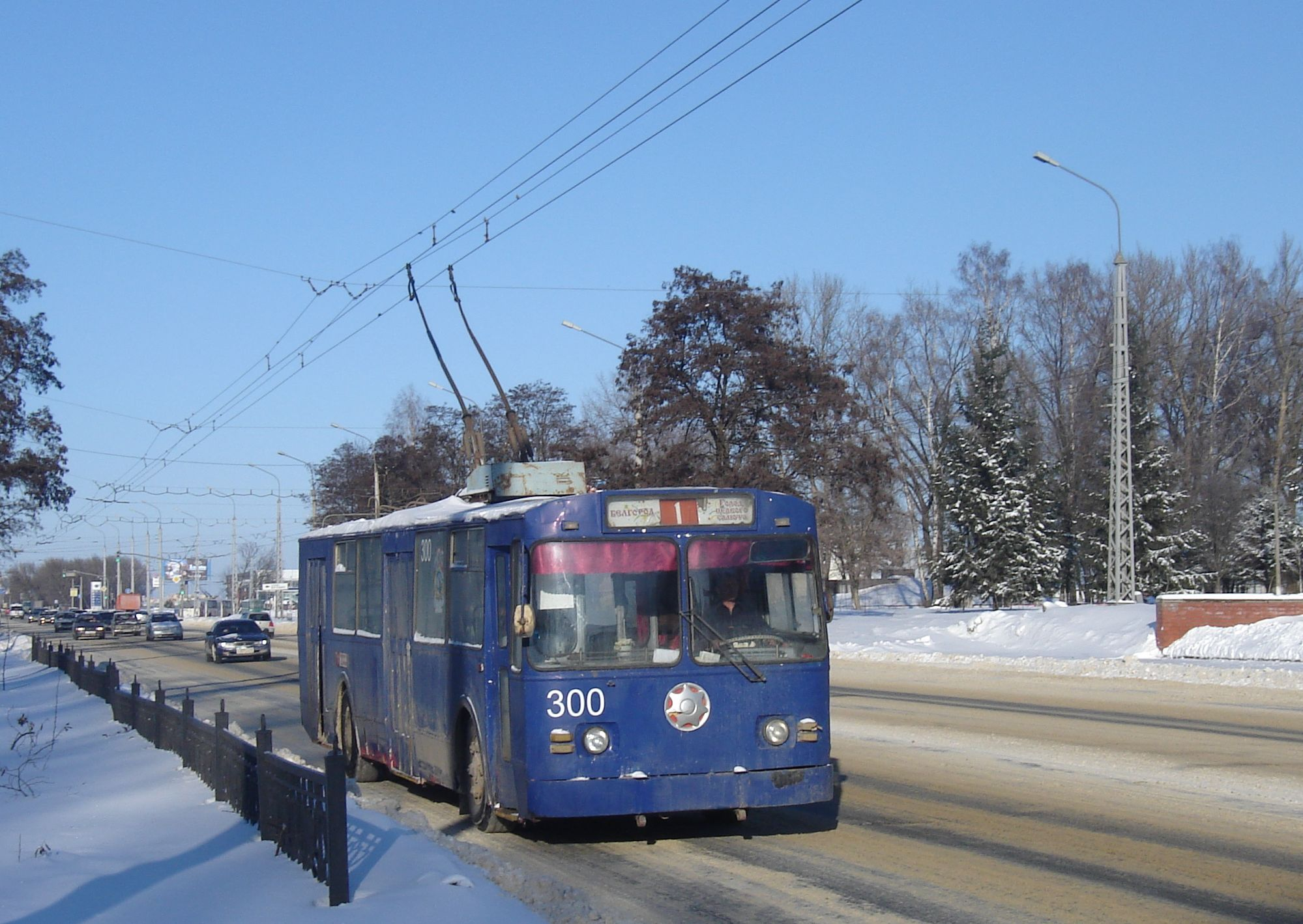 Trolleybus in Belgorod.